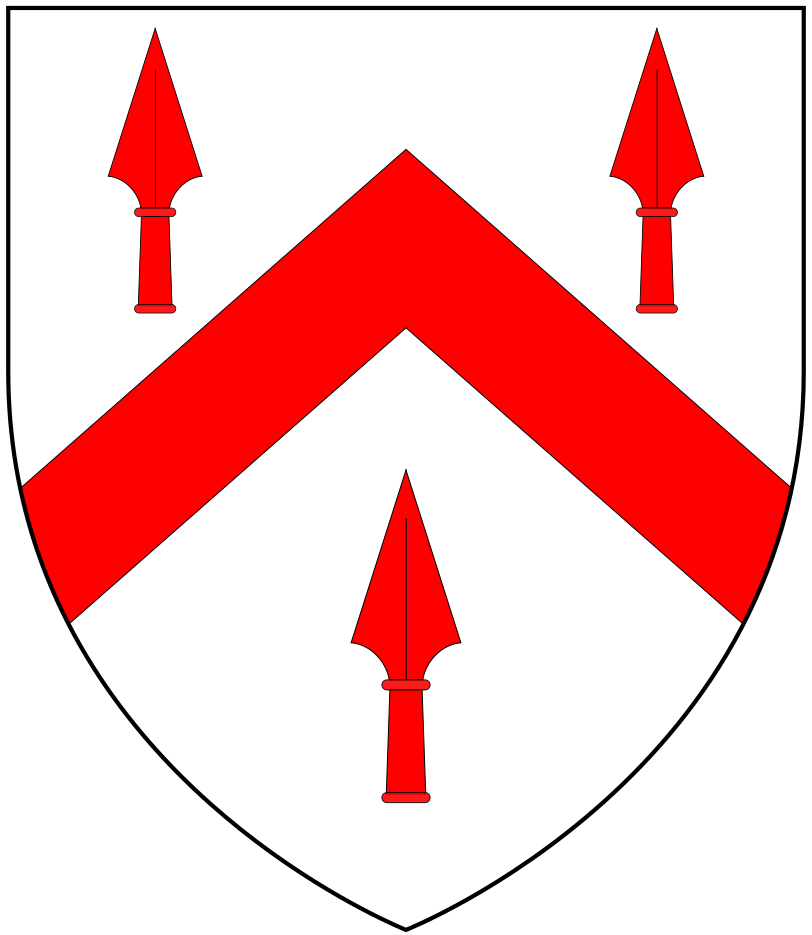 Arms of Whiddon of Chagford, Devon: Argent, a chevron between three spearheads gules (Vivian, Lt.Col. J.L., (Ed.) The Visitations of the County of Devon: Comprising the Heralds' Visitations of 1531, 1564 & 1620, Exeter, 1895, p.283; Pole, Sir William (d.1635), Collections Towards a Description of the County of Devon, Sir John-William de la Pole (ed.), London, 1791, p.509). See further: The Whiddon Journey: From Medieval England to the New World By Hayes L. Whiddon Jr., USA, 2016[1]